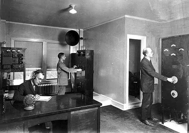 WLAG (later known as WCCO) transmitter room in the Oak Grove Hotel, Minneapolis, 1920.